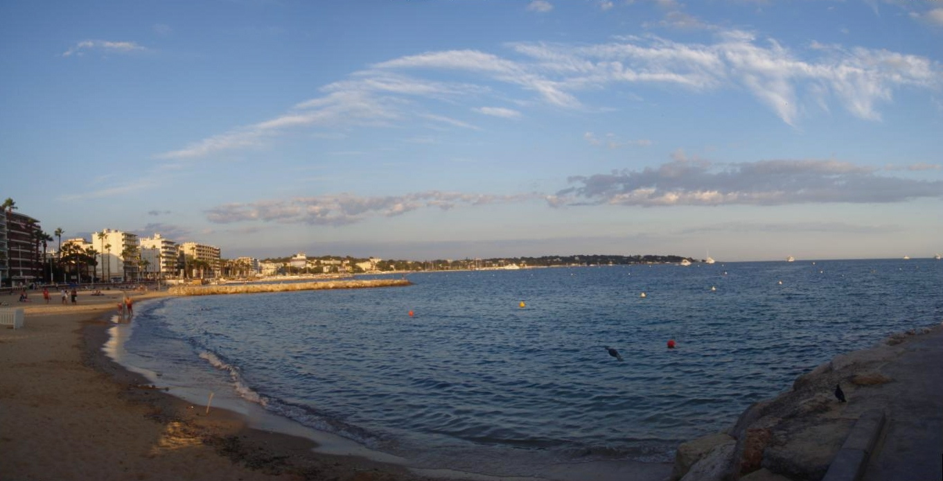 A Panorama shot of the beach of Juan-les-Pins at the French Côte d'Azur, near Antibes